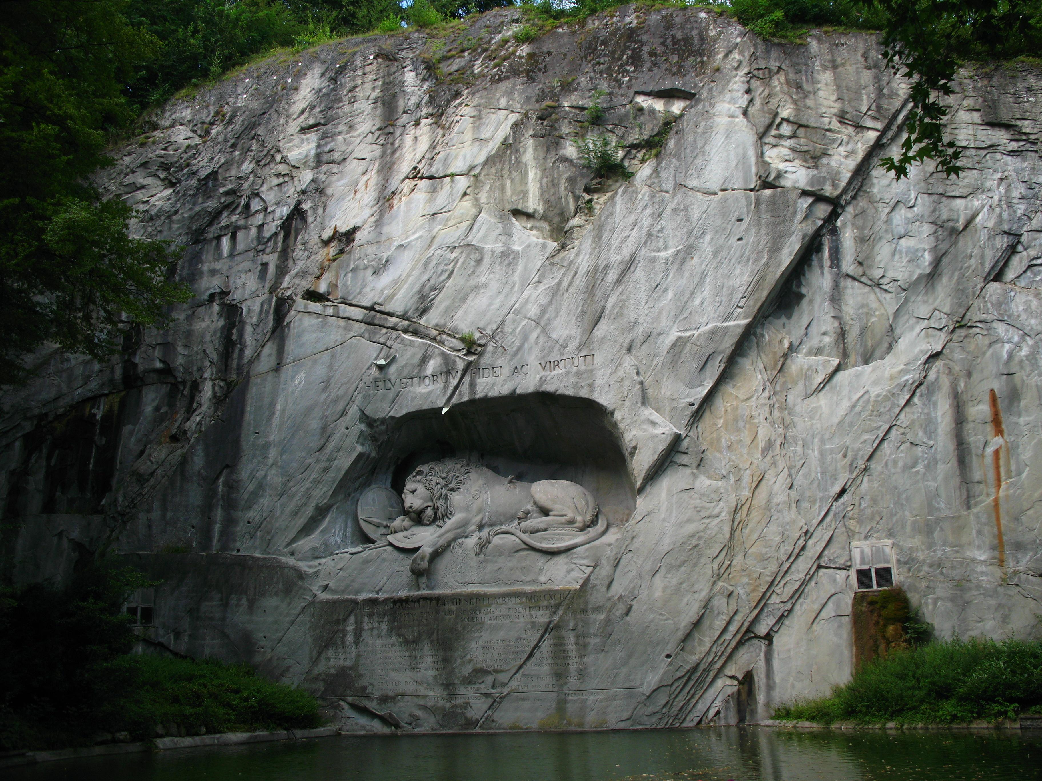 Lion Monument, Luzern, Switzerland